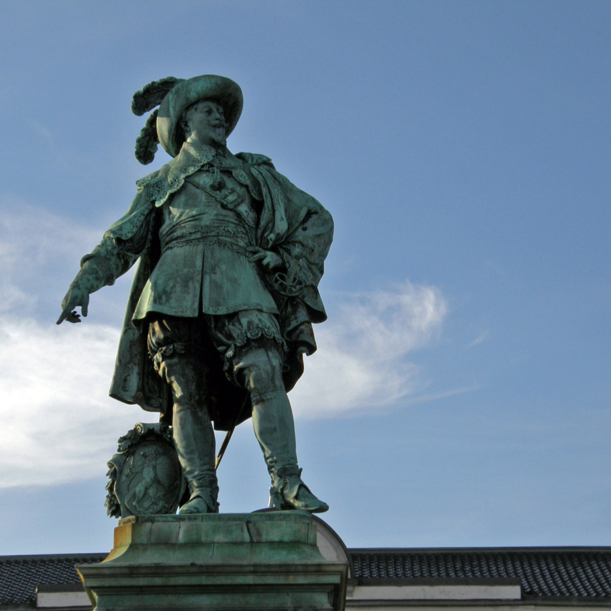 Statue of Gustavus Adolphus of Sweden, by Bengt Erland Fogelberg 1849,Gustaf Adolfs torg Gothenburg Sweden